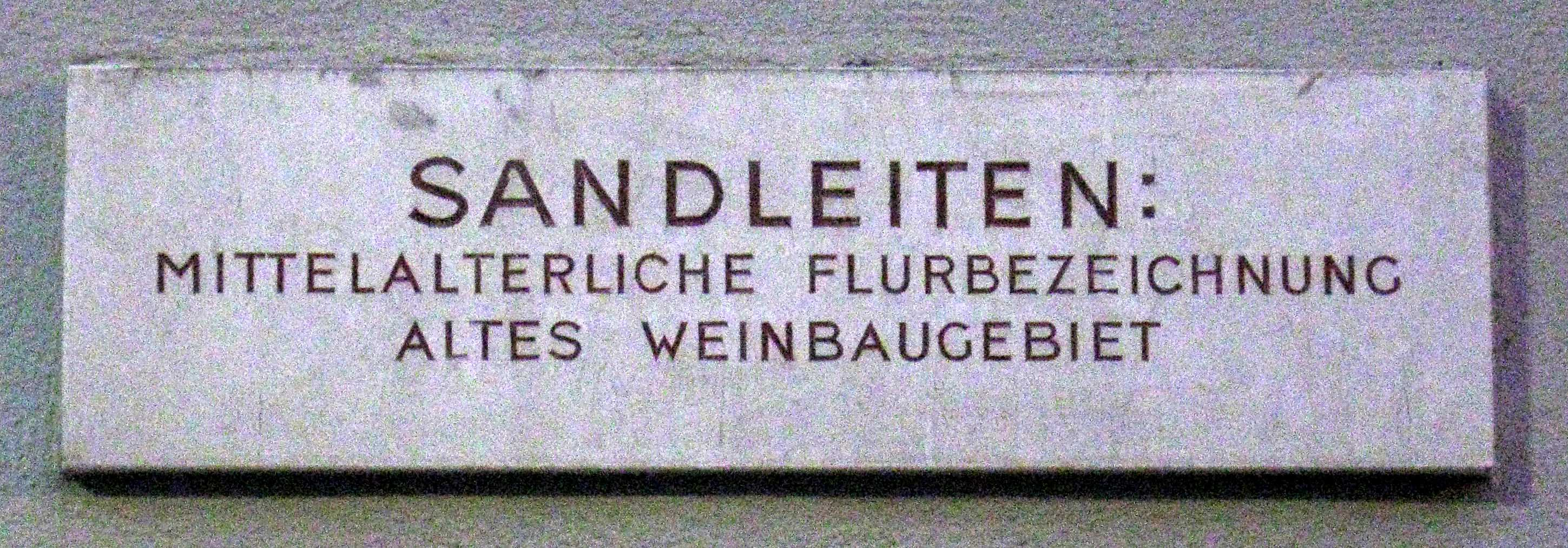 Plaque in Vienna, Liebknechtgasse 30: Description for the name of the Gemeindebau Sandleitenhof: former name of the rural region